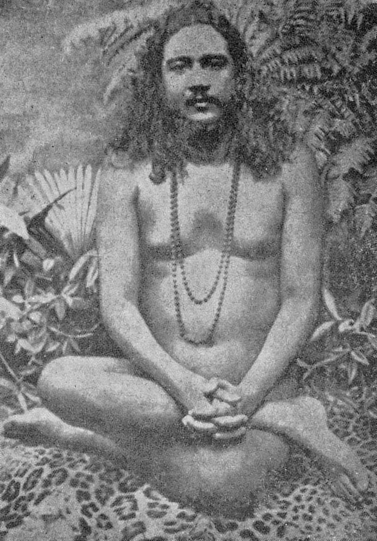 Paramahansa ShreeMat Swami Nigamananda Saraswati Deva